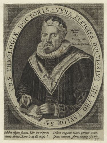 Portrait of the clergyman Thomas Taylor (1576-1633).